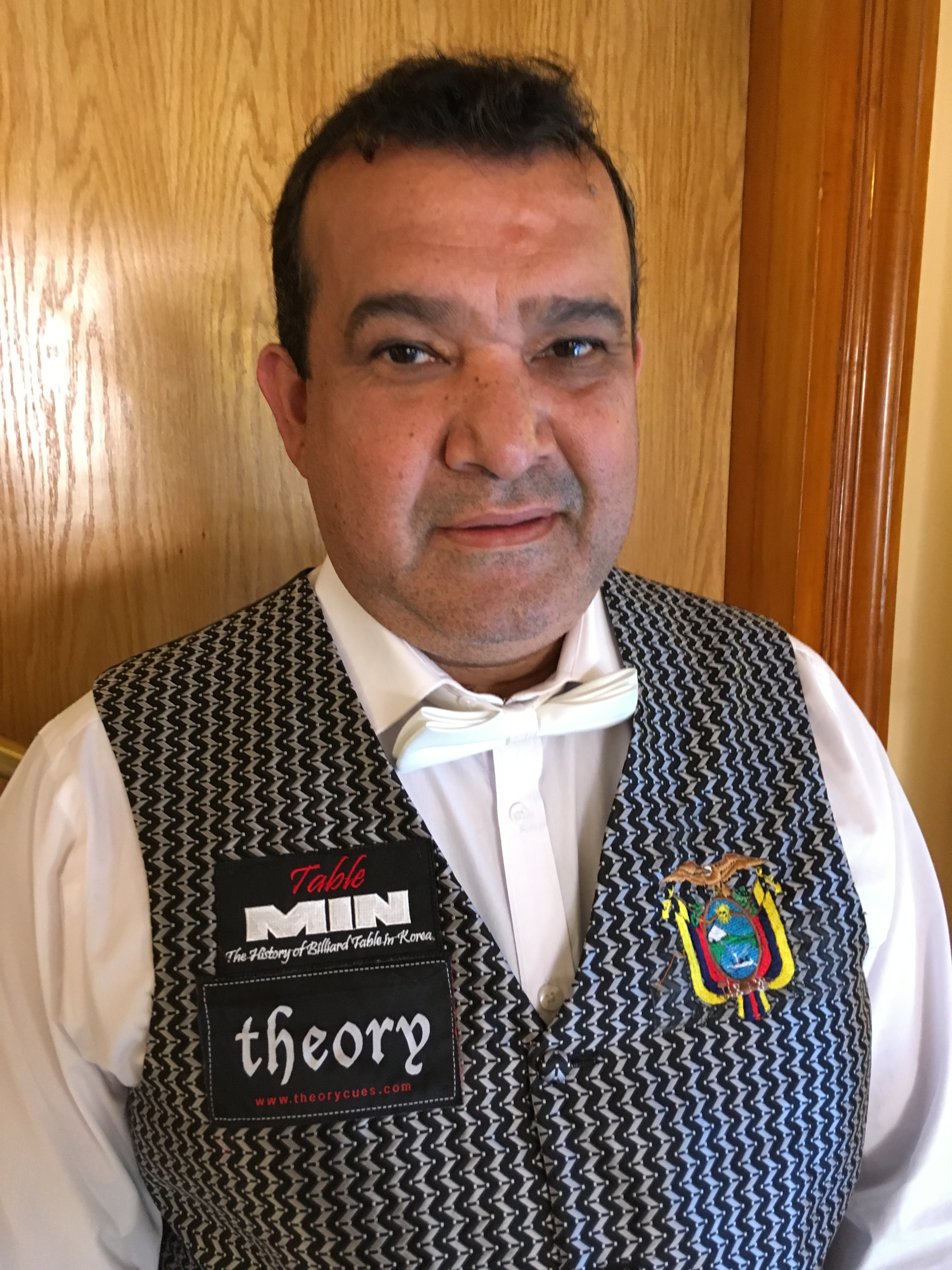 see file name